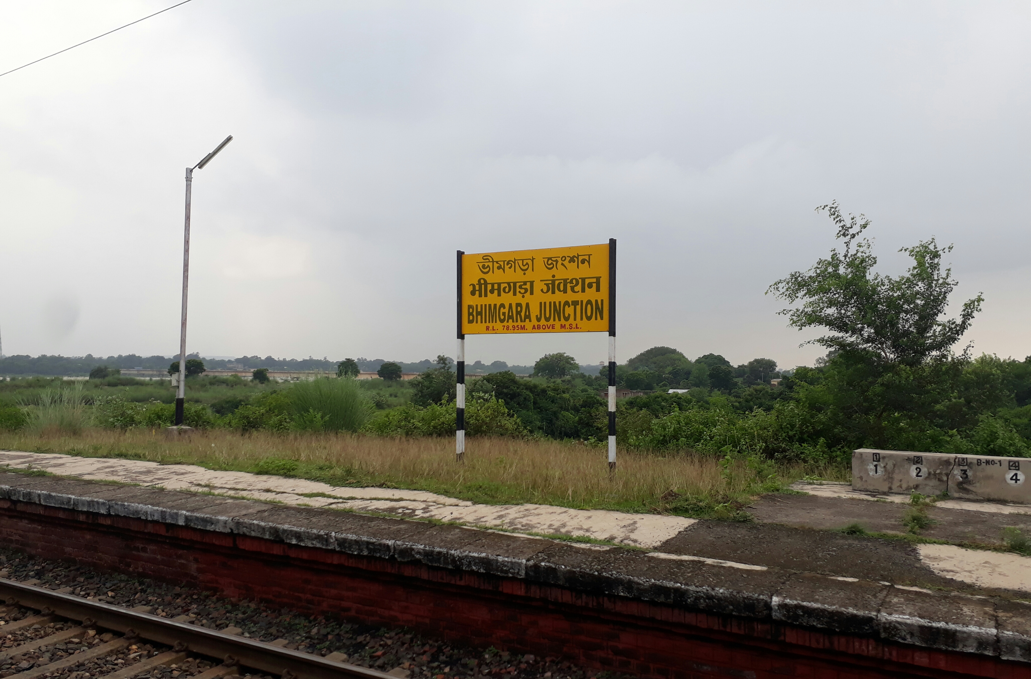 Railway Stations of West Bengal in Sainthia to Andal line.